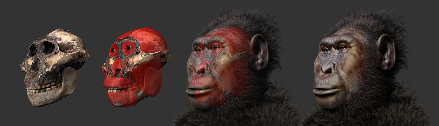 Paranthropus boisei - steps of forensic facial reconstruction